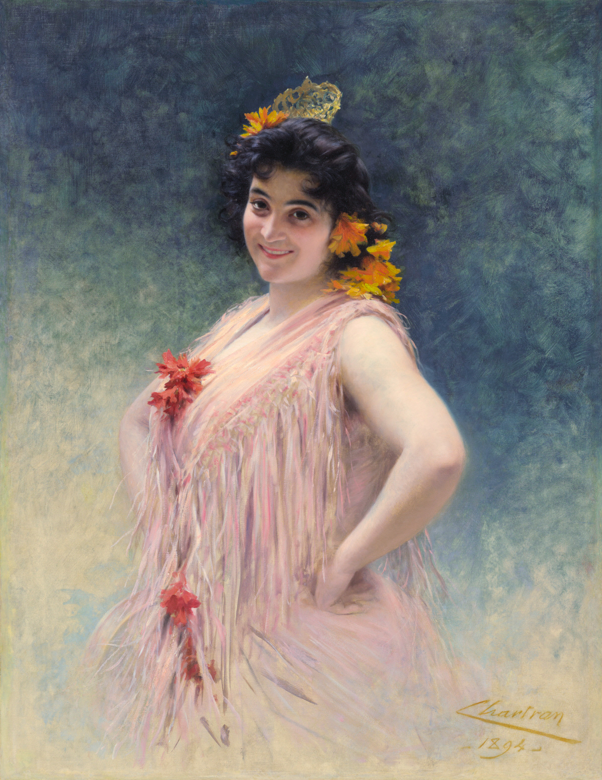 Emma Calvé, as Carmen oil on canvas 116.4 x 90.2 cm signed b.r.: Chartran / 1894